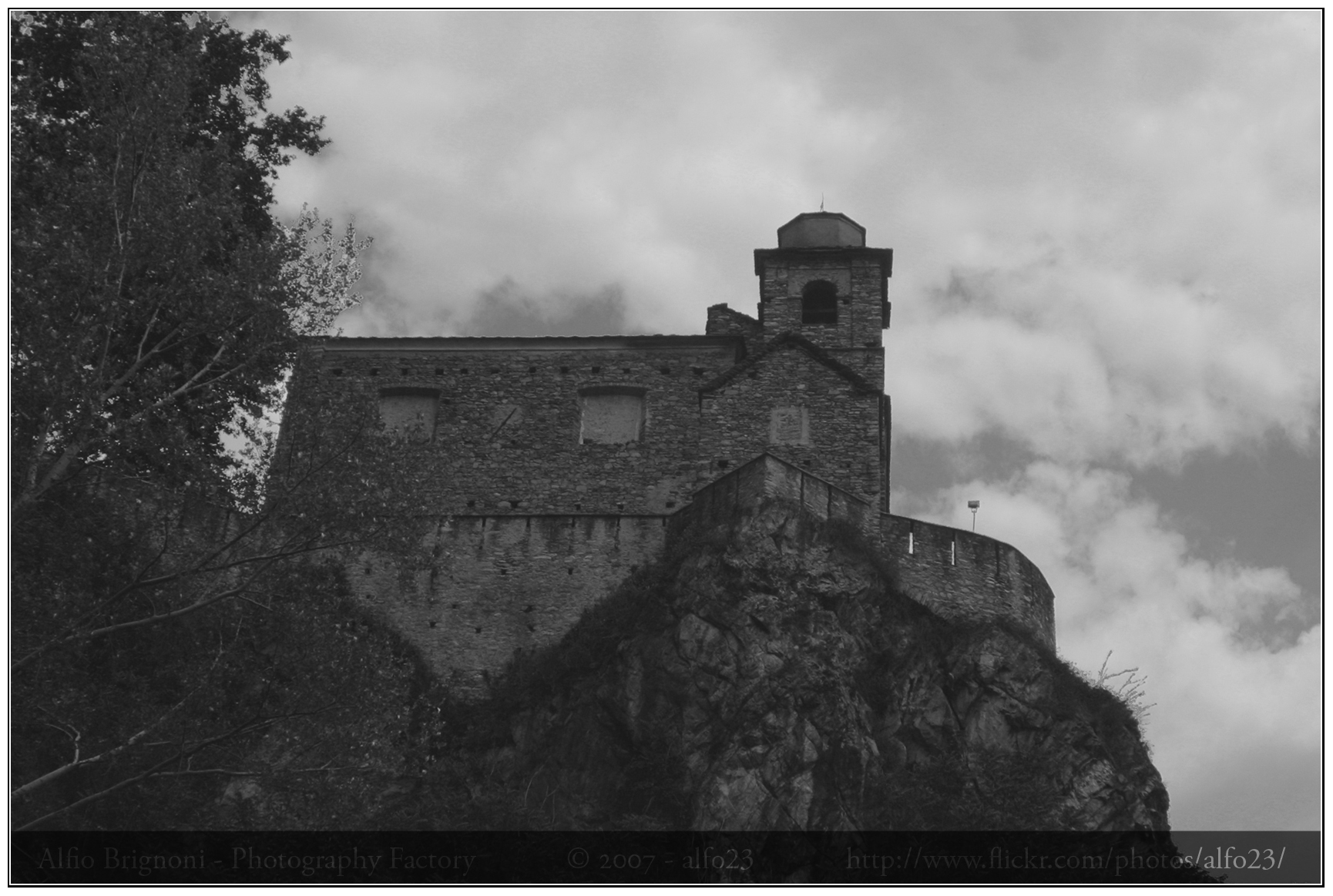 Holy Trinity church seen from waaay down, the river that divides Sementina from Monte Carasso